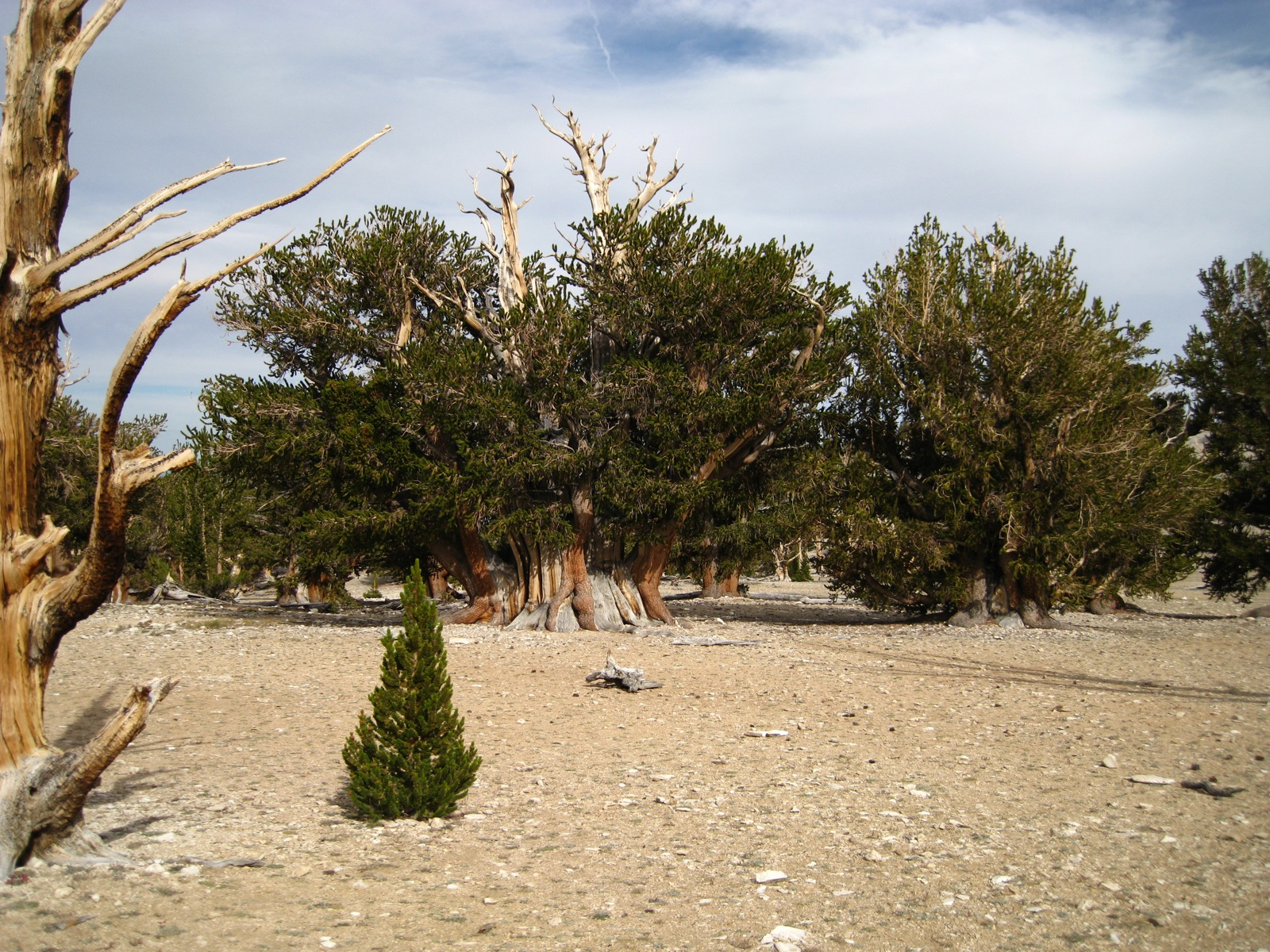 The Patriarch Tree, a landmark Pinus longaeva in the upper White Mountains in the Inyo National Forest, eastern California.